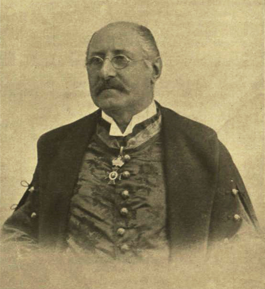 Ferenc Beniczky, politician.